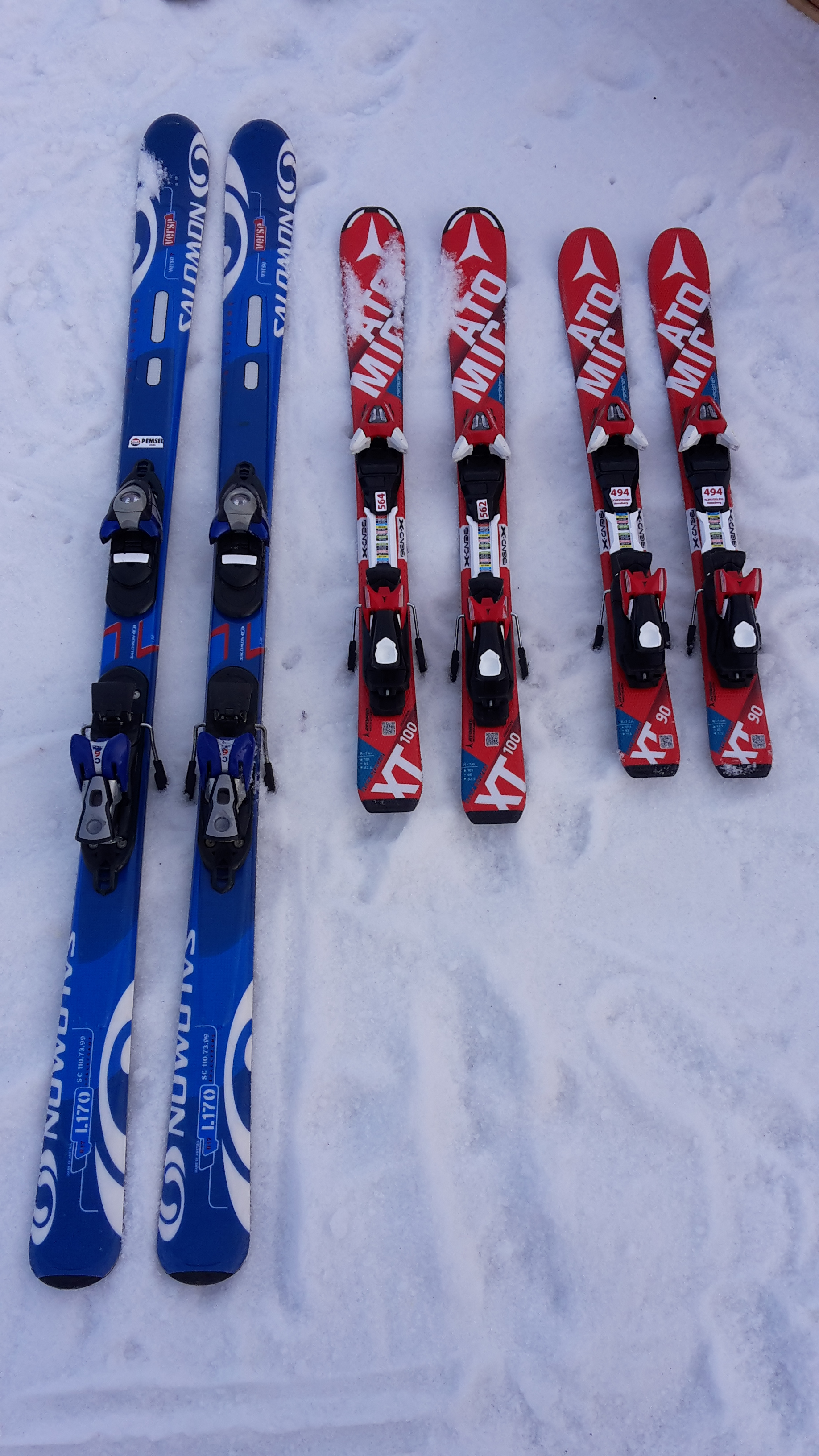 Alpinskier der Marken Salomon und Atomic im Skigebiet Annaberg in Niederösterreich